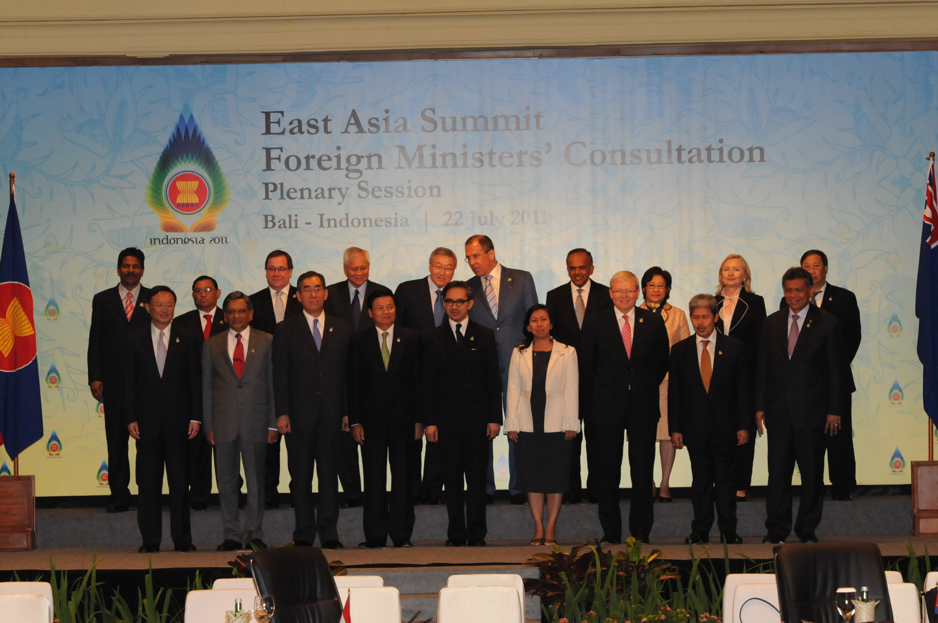 BALI, Indonesia (July 22, 2011) U.S. Secretary of State Hillary Rodham Clinton at the East Asia Summit Foreign Ministers’ Consultation. Standing in the front row from left to right are: Chinese Foreign Minister Yang Jiechi, Indian Foreign Minister S.M. Krishna, Japanese Foreign Minister Takeaki Matsumoto, Lao Foreign Minister Thongloun SIsoulith, Indonesian Foreign Minister Marty Natalegawa, Cambodian Secretary of State Seoung Rathchavy, Australian Foreign Minister Kevin Rudd, Bruneian Foreign Minister Mohammad Bolkiah, ASEAN Secretary General Surin Pitsuwan. Standing in the rear row from left to right are: Malaysian Deputy Foreign Minister Kohilan Pillay, Burmese Foreign Minister Wunna Maung Lwin, New Zealand Foreign Minister Muray McCully, Philippines Foreign Minister Albert Del Rosario, South Korean Foreign Minister Kim Sung-hwan, Russian Foreign Minister Sergey Lavrov, Singaporean Foreign Minister K. Shanmugam, Thai Deputy Permanent Secretary for Foreign Affairs Chitriya Pinthong, U.S. Secretary of State Hillary Rodham Clinton, and Vietnamese Foreign Minister Pham Gia Khiem. [U.S. Embassy Jakarta photo by Erik Kurniawan/U.S. Government Work/Public Domain]